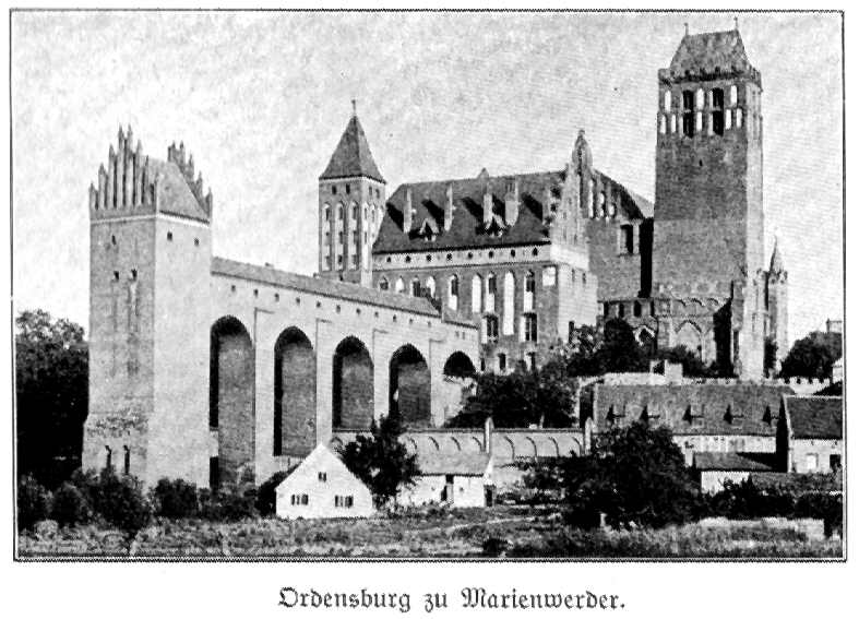 Gothic castle of Pomesanian bishops from 14th century in Marienwerder/ Kwidzyn